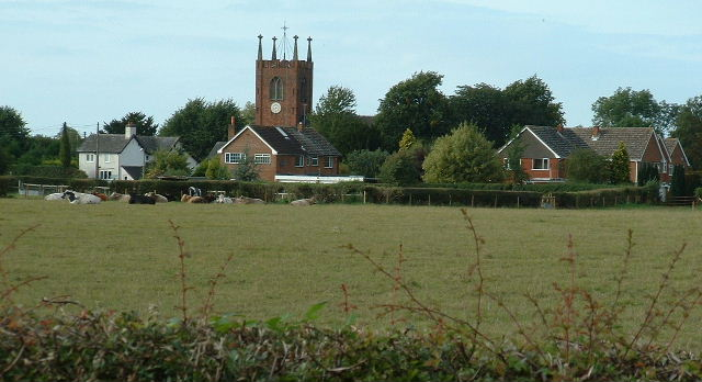 Seighford Village. Looking north over pastures - note Church is in next square at SJ8825